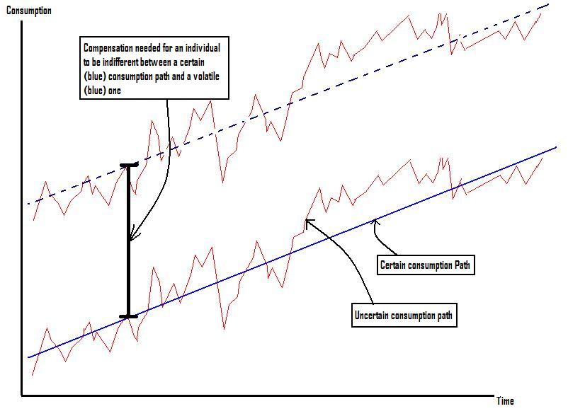 Graph I created to illustrate a concept